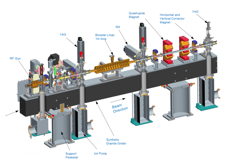 Cut-away view of the RF photo-injector gun that produces the electron bunch to be injected in the plasma wakeﬁelds.